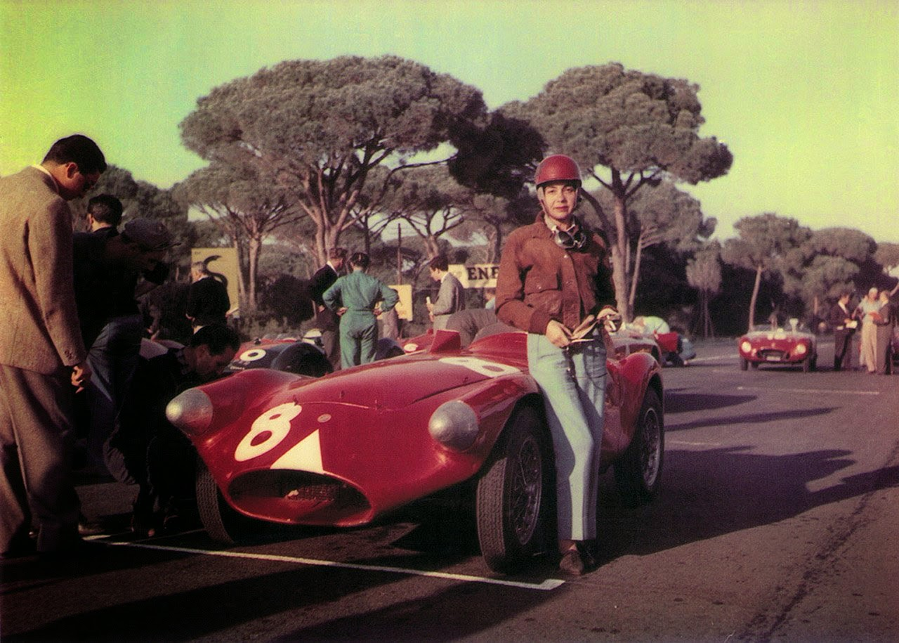 Racecar driver Anna Maria Peduzzi (1912–79)[1] and what looks like a Stanguellini 1100 racecar in a 1950s race in Italy, most likely the Gran Premio Roma in Castelfusano on October 21, 1956 where she drove a Stanguellini 1100 Sport with entry #8.[2]